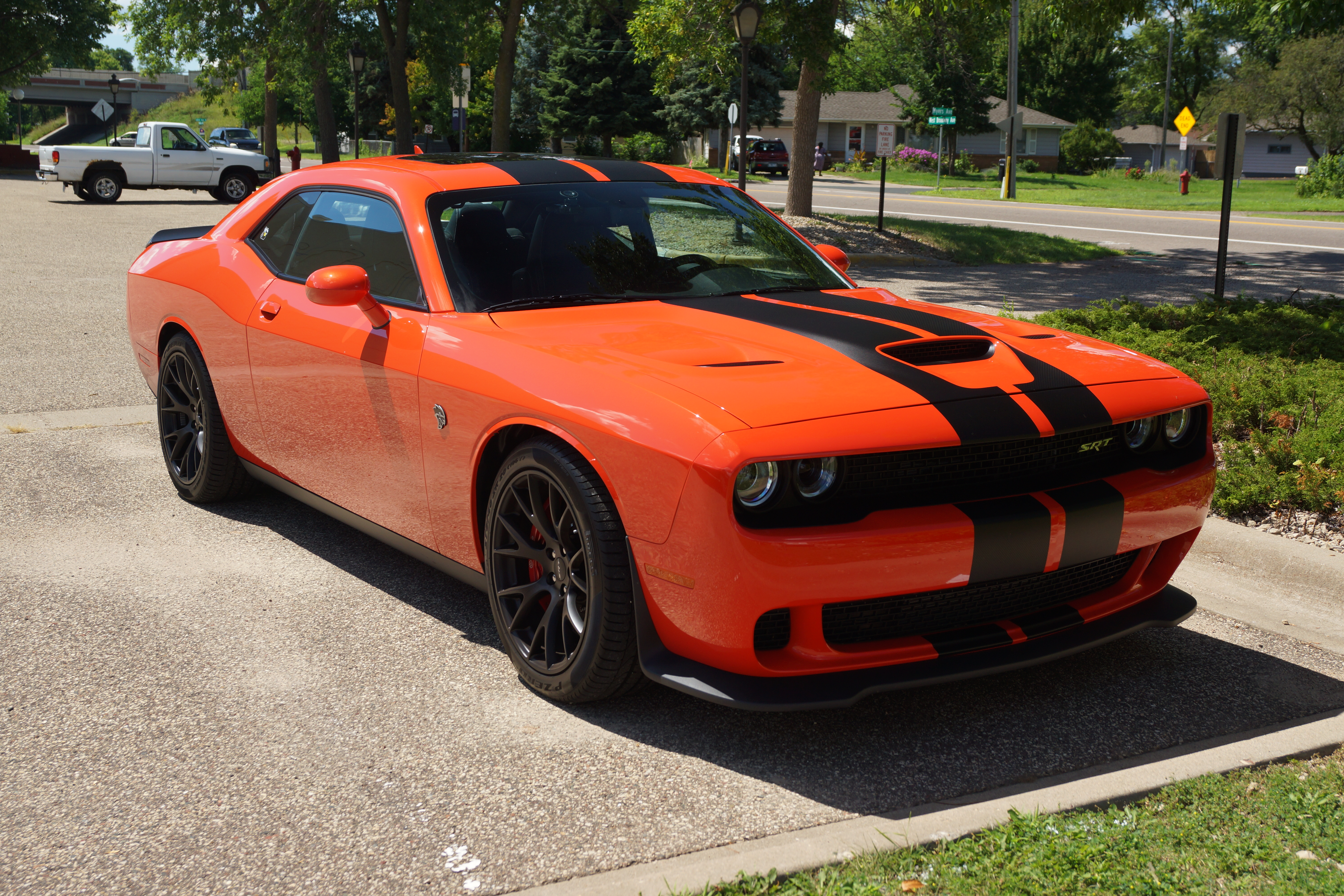 Walter P. Chrysler Club 10,000 Lakes Region 18th Annual Car Show Wagner's Drive-In Brooklyn Park, Minnesota Click here for more car pictures at my Flickr site.